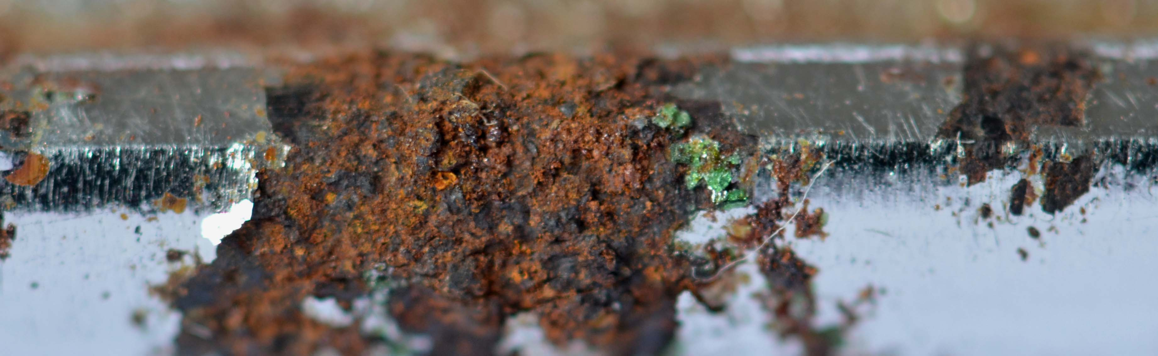 Chrome tool (wrench or adjustable wrench) used on ships at sea corrosion is significant, despite the chrome. It is possible to distinguish local green crystals (copper?)